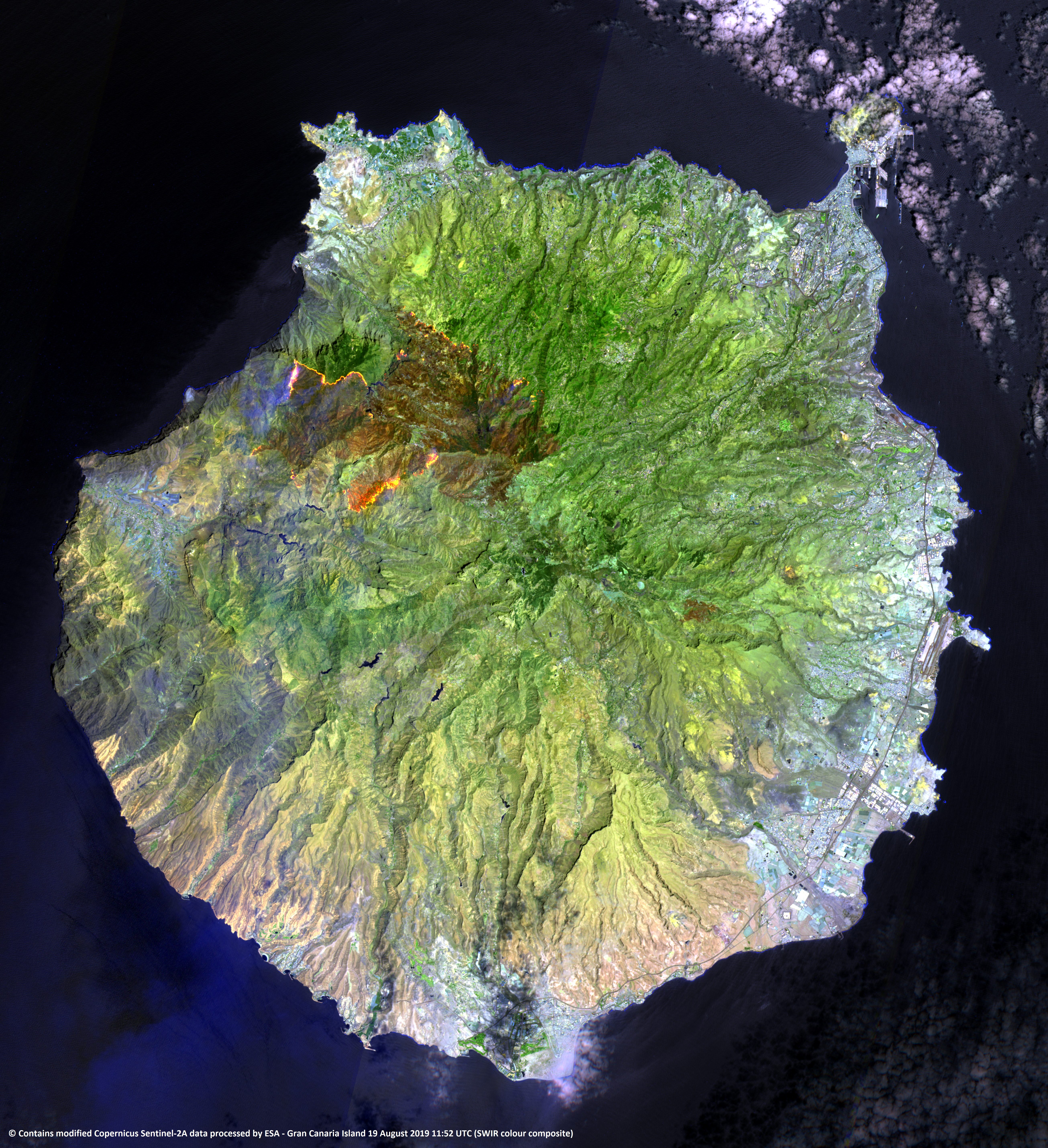 An unprecedented wildfire has ripped through the island of Gran Canaria, one of Spain’s Canary Islands off the northwest coast of Africa. The wildfire, which started on Saturday 17 August, has now started to subside after engulfing around 10 000 hectares of land, leading to the evacuation of over 9000 people. This false colour image, captured on 19 August, was created using the shortwave infrared bands from the Copernicus Sentinel-2’s instrument, and allows us to clearly see the fires on the ground in bright orange. Burn scars are visible in dark brown. These bands also allow us to see through smoke – but not clouds. The Copernicus Emergency Mapping Service was activated to help respond to the fire. The service uses satellite observations to help civil protection authorities and, in cases of disaster, the international humanitarian community, respond to emergencies. The fire started near the town of Tejeda and spread to Tamadaba Natural Park, driven by a combination of high temperatures, strong winds and low humidity. According to authorities, over 700 firefighters on the ground and 16 aircraft helped tackle the blaze, with some flames reaching over 50 metres in height. Credits: contains modified Copernicus Sentinel data (2019), processed by ESA, CC BY-SA 3.0 IGO